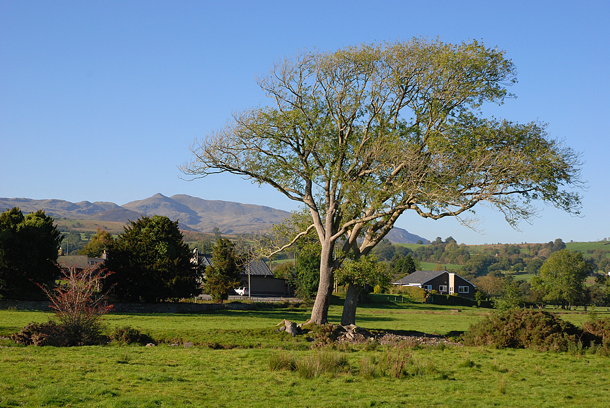 Trees by the Afon Dyfrdwy, near to Llanuwchllyn, Gwynedd, Great Britain. With Arenig Fawr in the background.